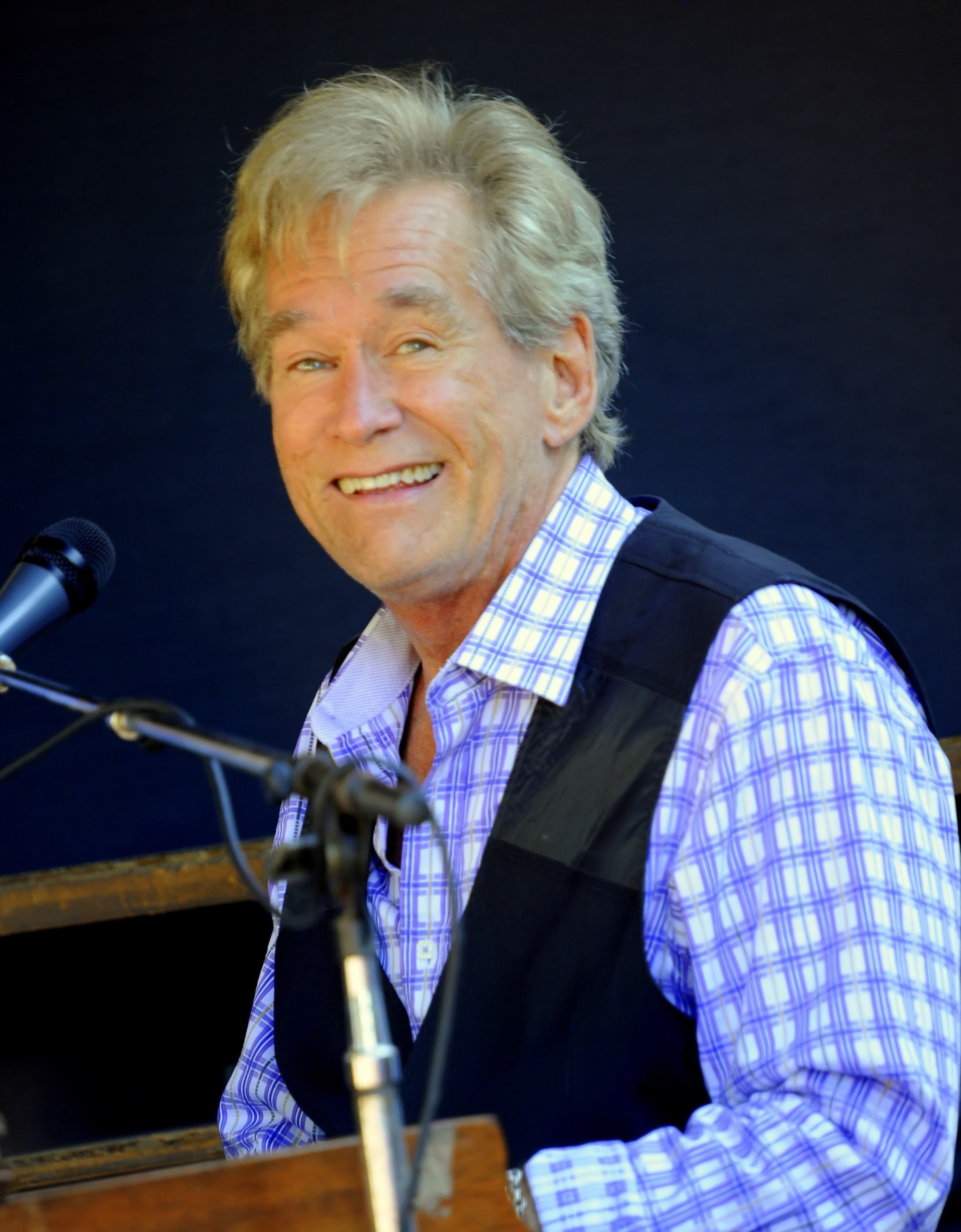 in concert